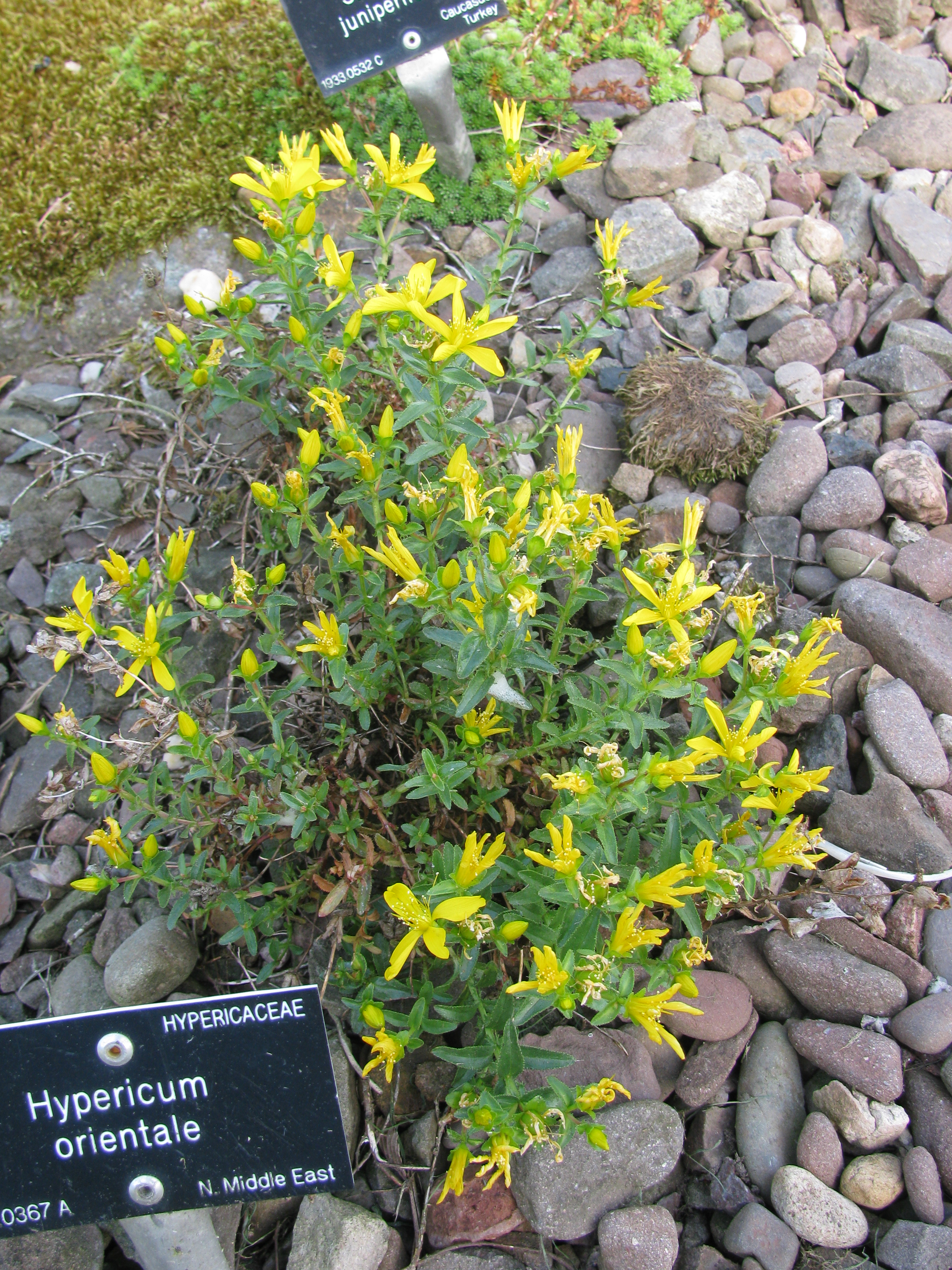 Hypericum orientale Royal Botanic Garden Edinburgh: Accession number 2000.0367 A